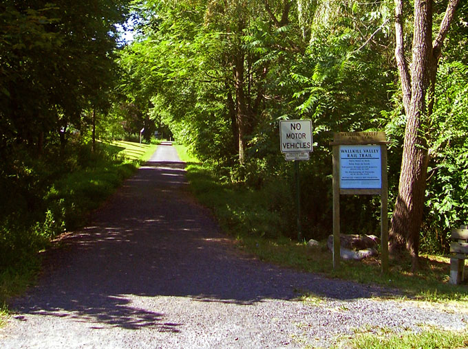 Photographed by Daniel Case 2006-08-12